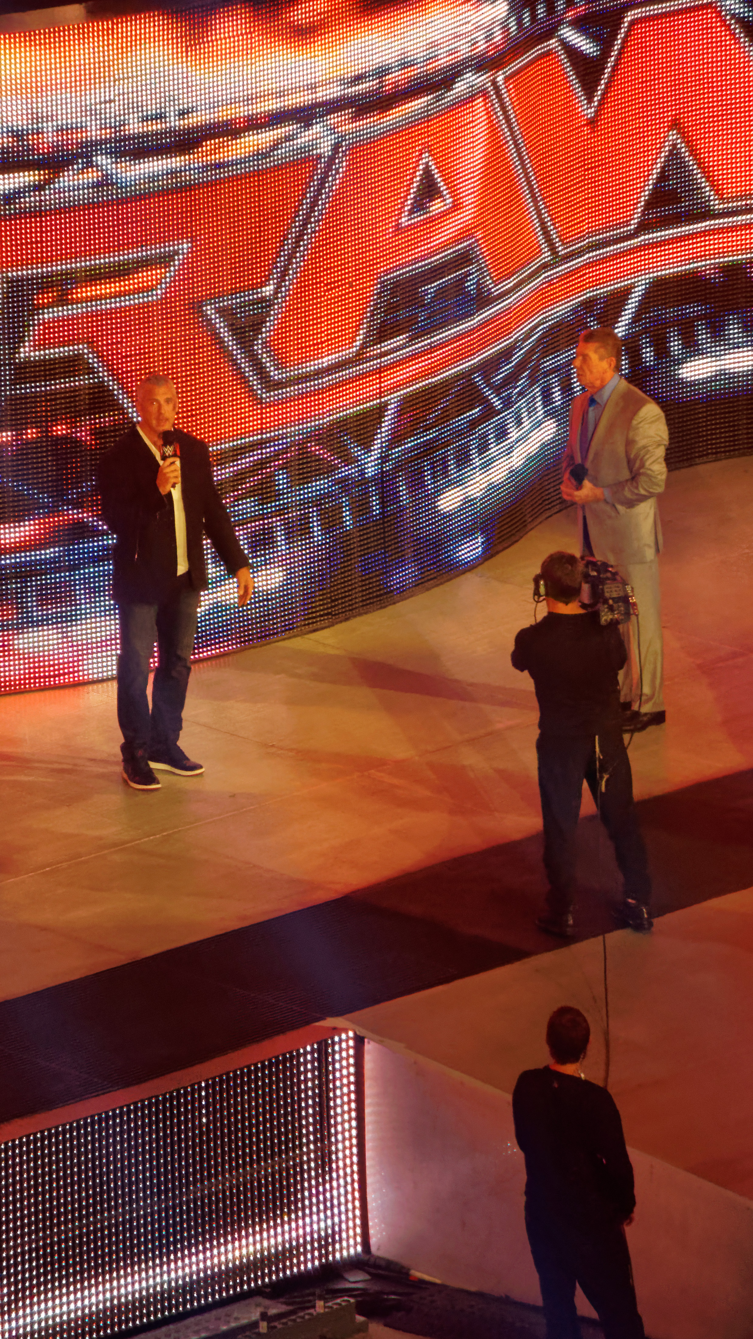 The raw after WrestleMania 32